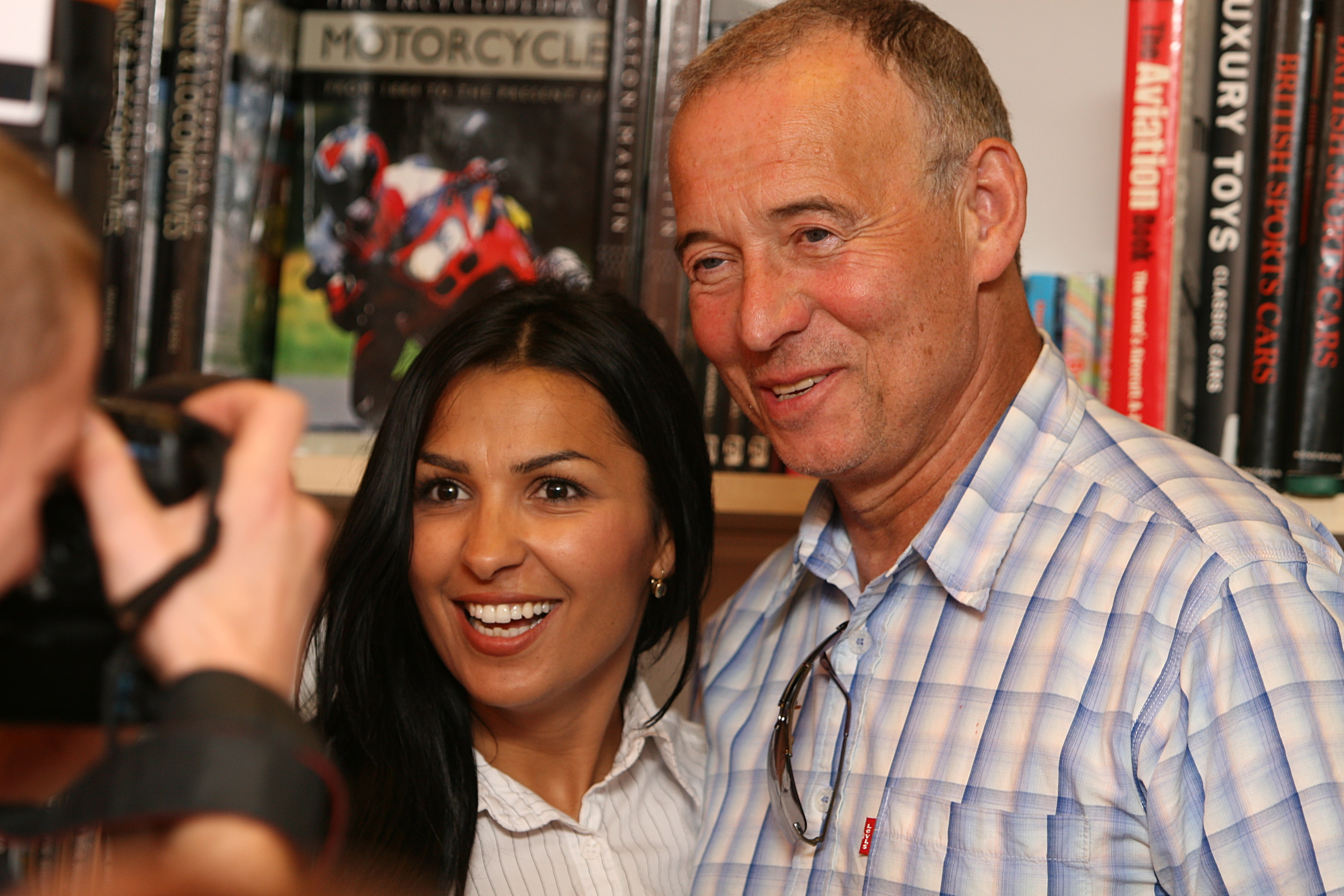 Ivan Vyskočil with his ex-wife Anife Ismet Hassan